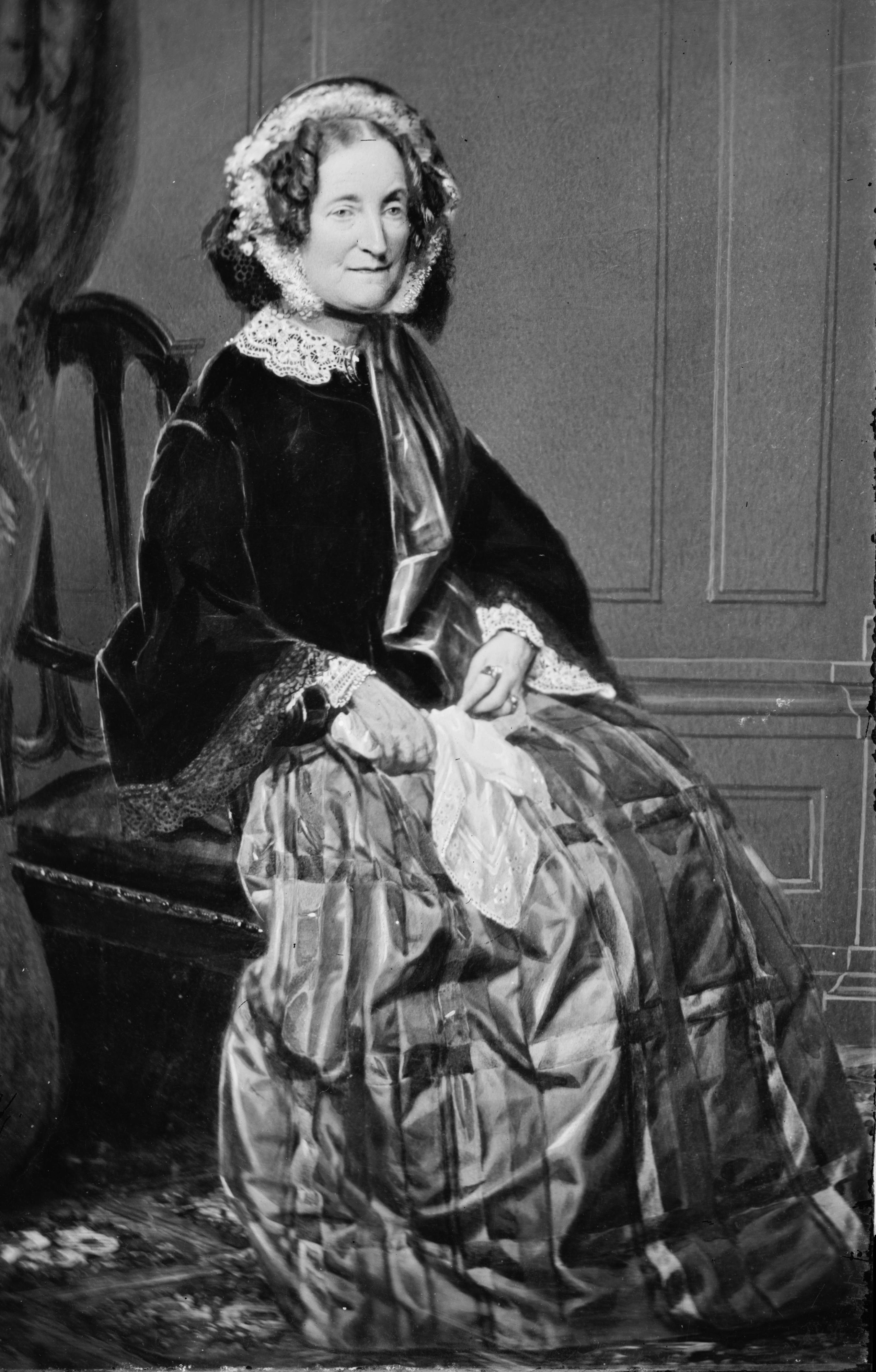 Lydia Sigourney. Library of Congress description: "Mrs. Lydia H. Sigourney".